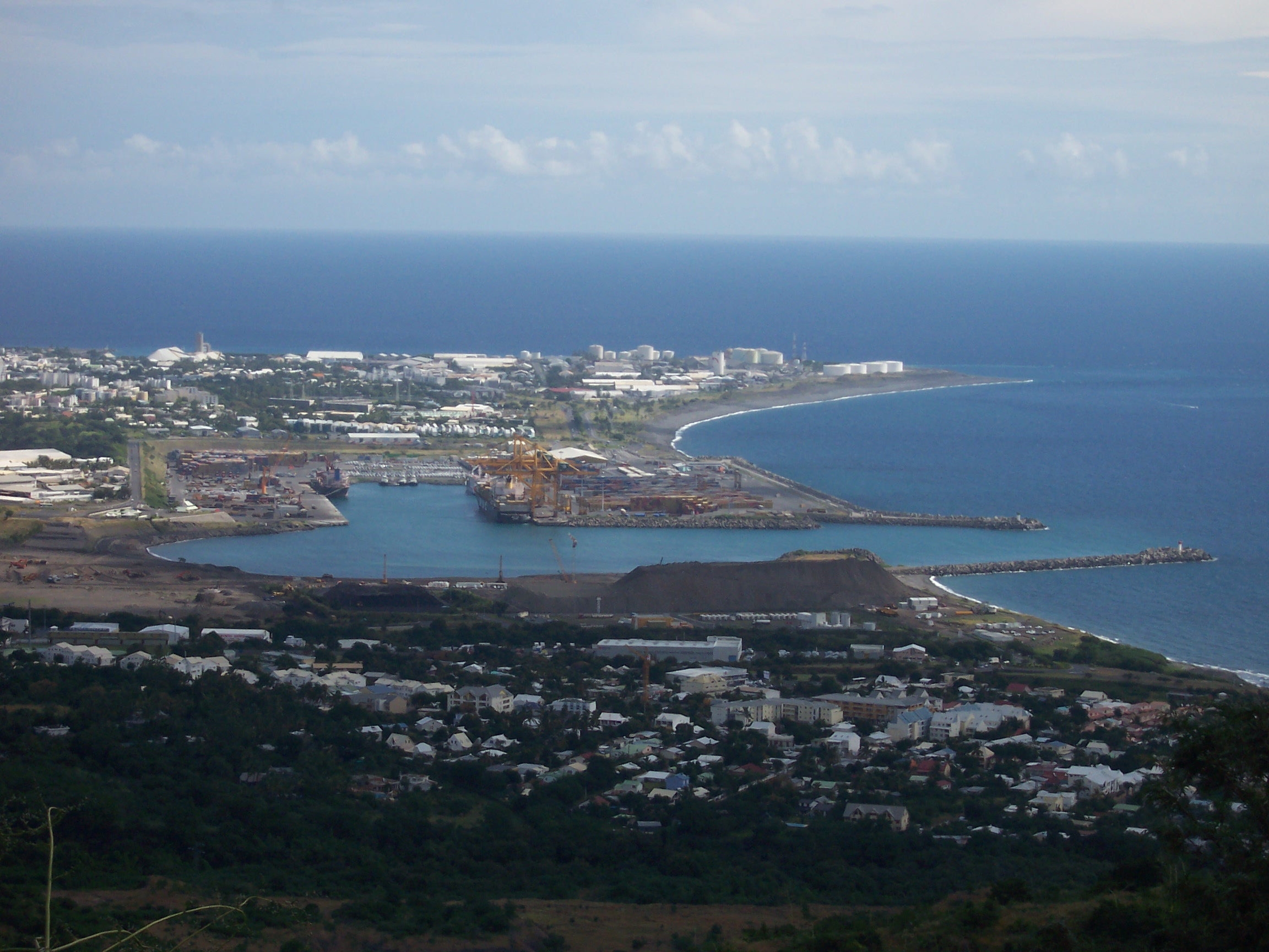 The new harbour of the city of Le Port (Réunion island) : overview from the «Route de la Montagne»